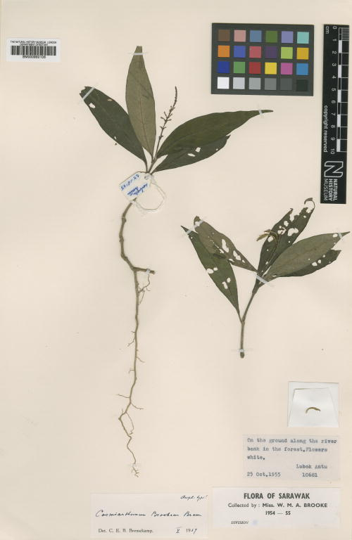 Cosmianthemum brookeae specimen collected by Winifred M. A. Brooke in Sarawak and held at the Natural History Museum, London.